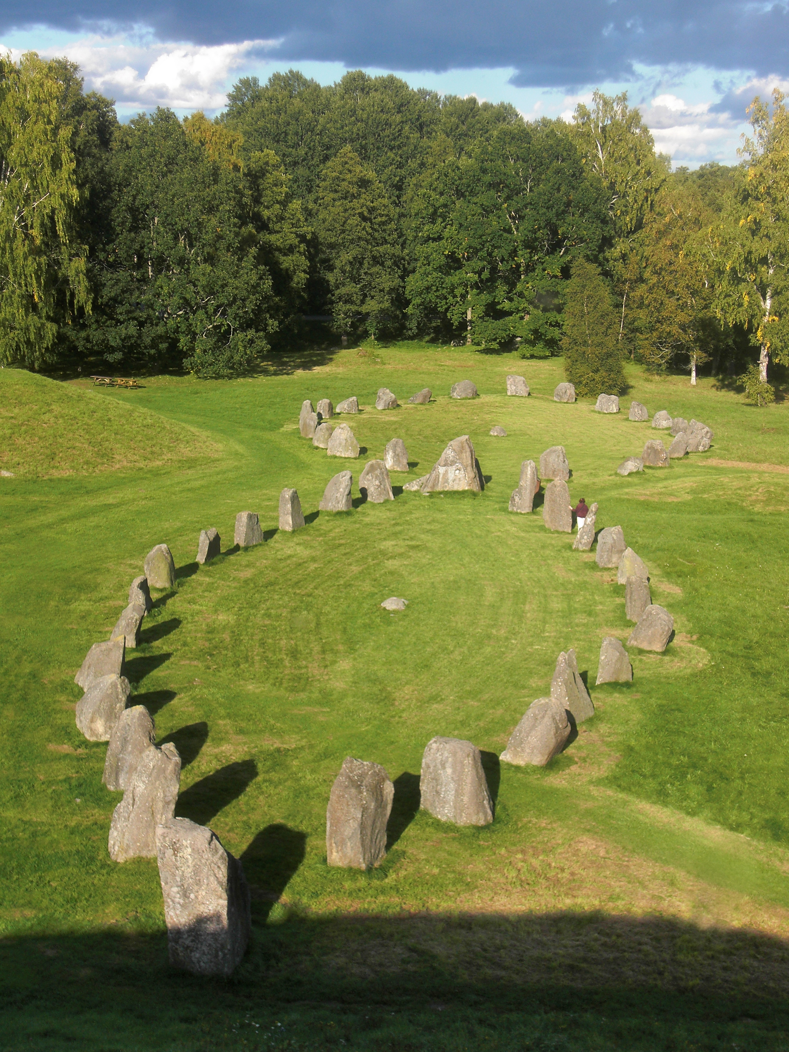 Ship setting at Anundshög in Västerås municipality, Västmanland, Sweden.